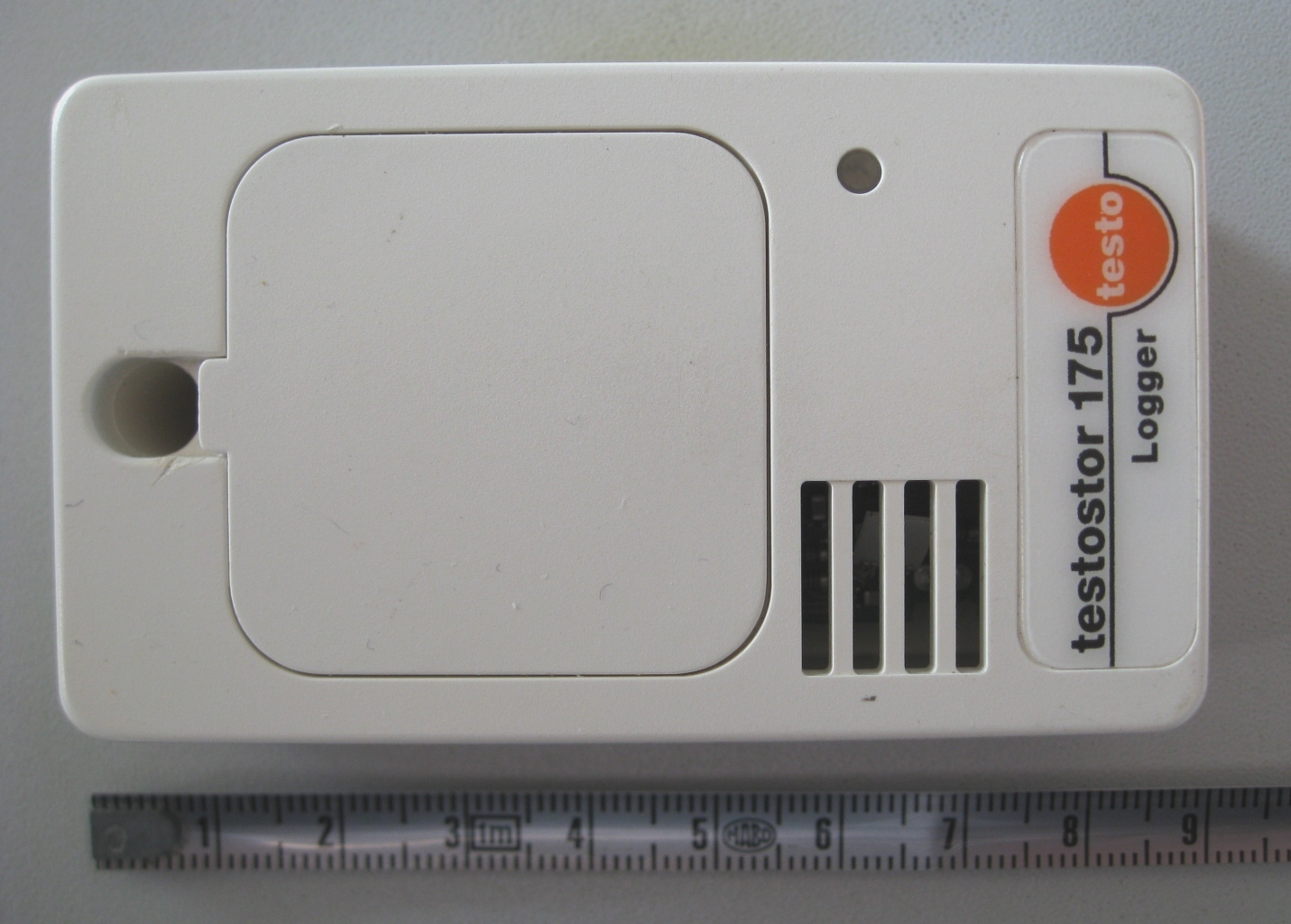 Portable data logger (temperature + relative humidity measured). Testo brand, Testostor 175 model. Memory 4,000 measures. Measurement cycle from 30 s to 12 h. The sensors are placed under the slots to the right of the box. See also Temperature data logger.